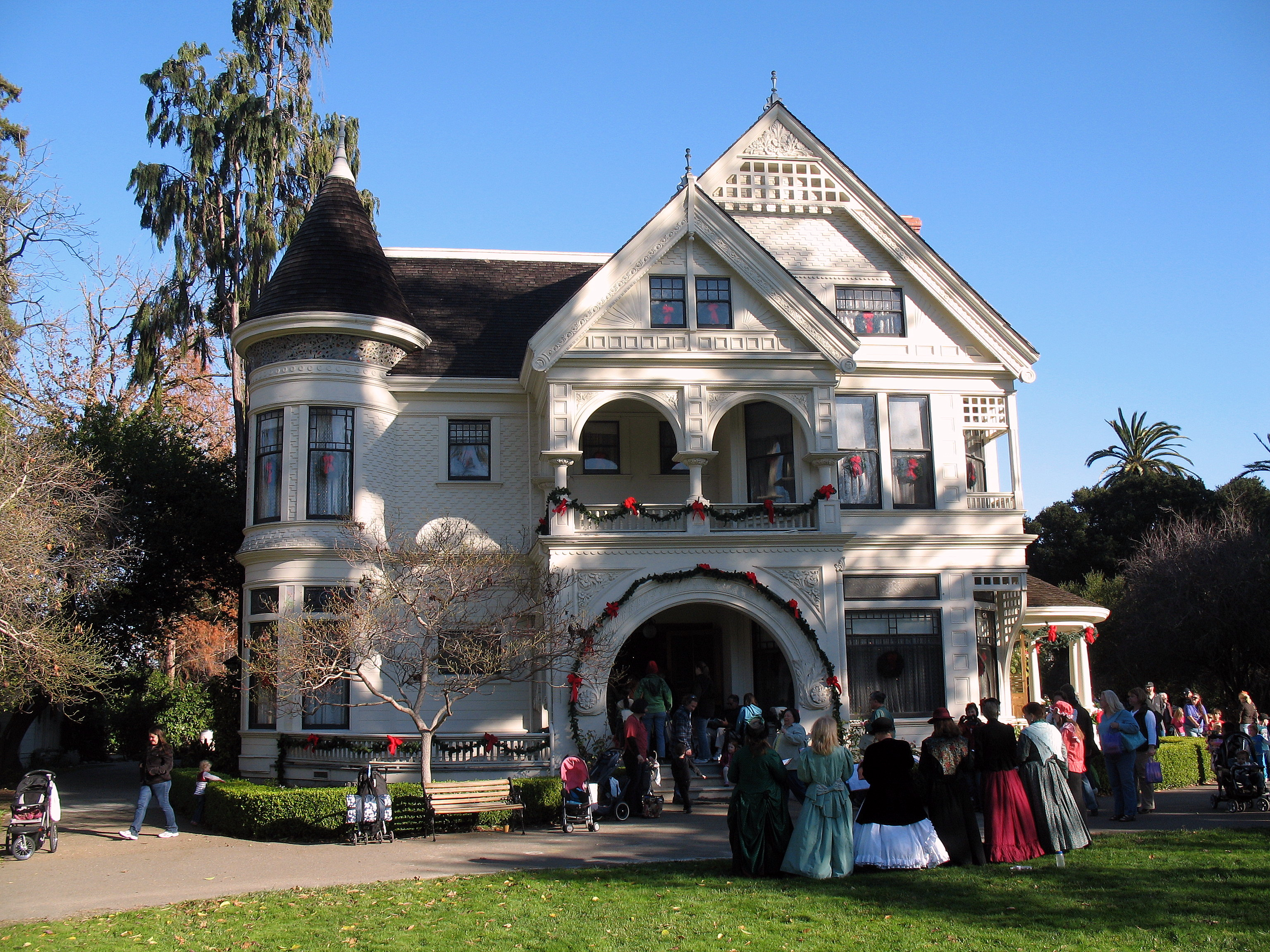 National Register of Historic Places listings in Alameda County, California. George Washington Patterson Ranch-Ardenwood, 34600 Newark Blvd., Fremont, CA